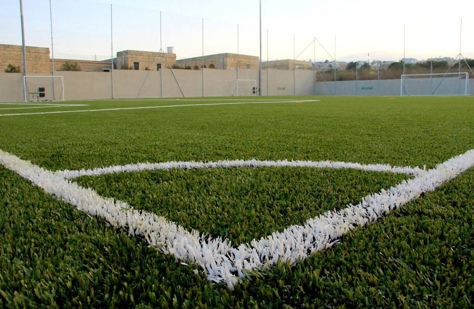 Swieqi United Football Ground.